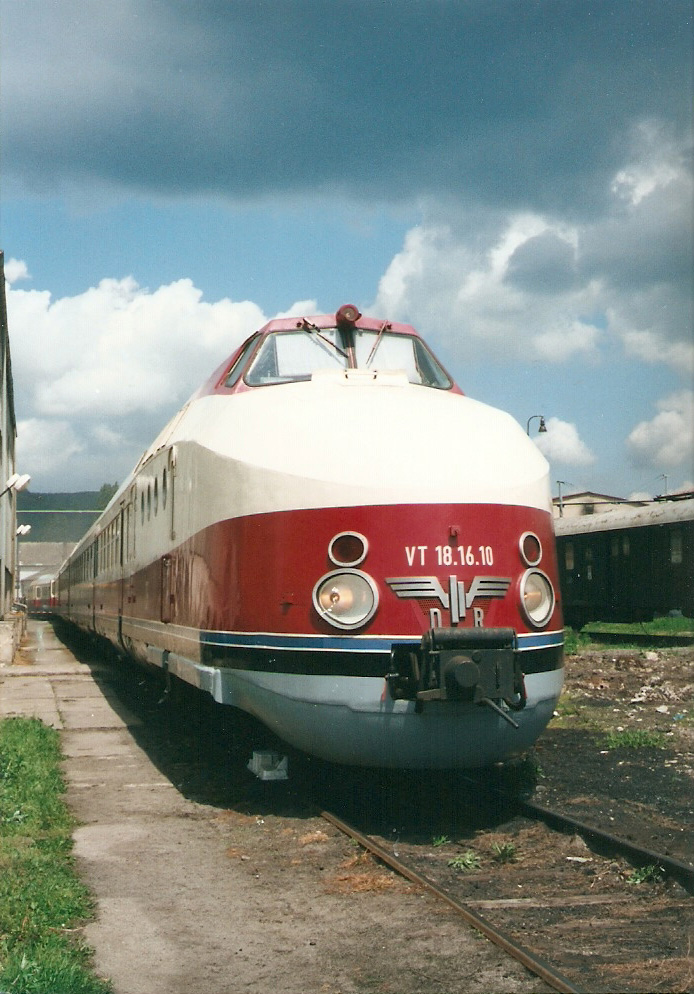 VT 18.16.10 in Děčín during the celebration of 150th anniversary of railway in Děčín